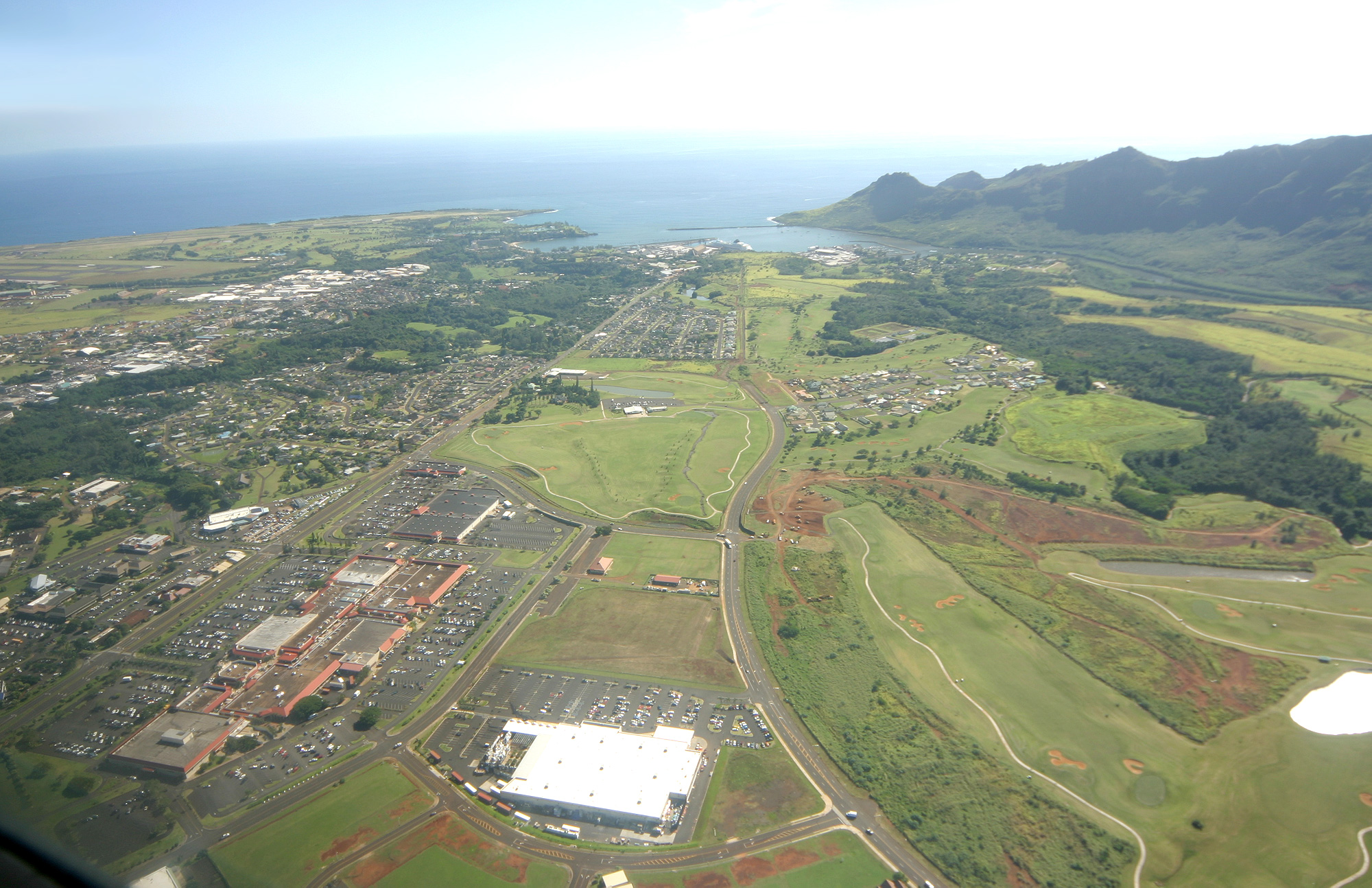 Aerial view of Lihue, Kauai, Hawaii.